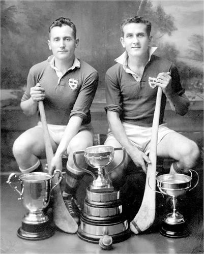 (c. 1959)